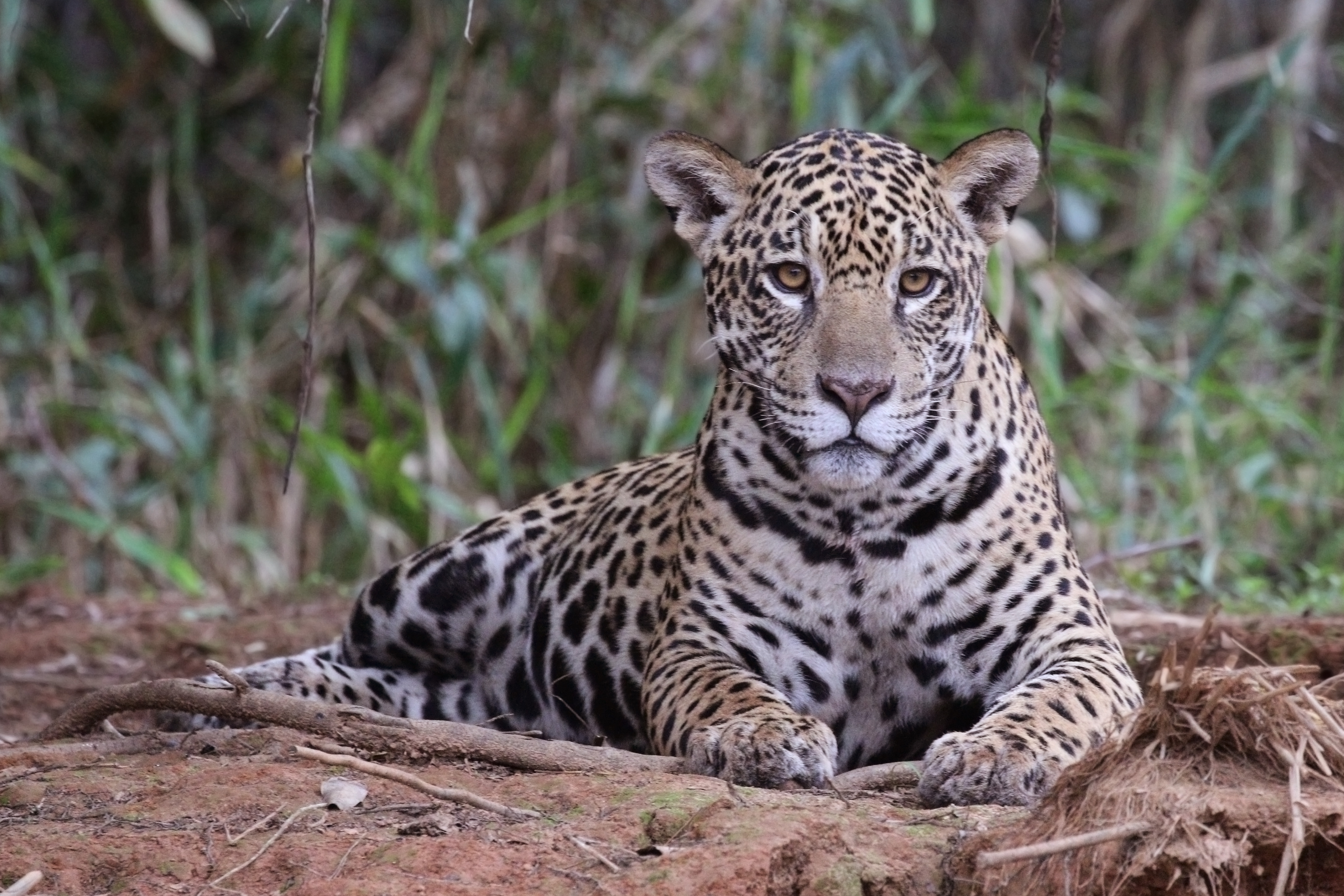 Jaguar (Panthera onca palustris) female, Piquiri River, the Pantanal, Brazil